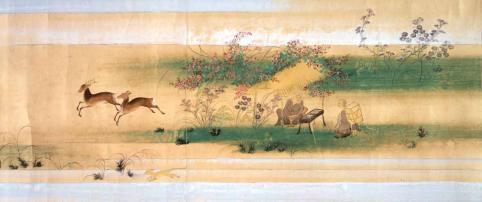 Saigyo Monogatari Emaki - Sotatsu version.